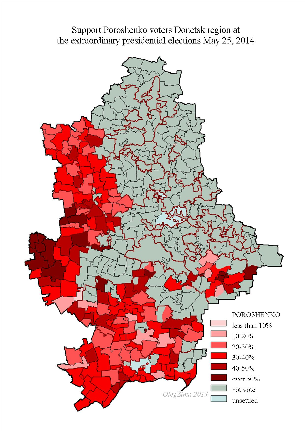 Support Poroshenko voters Donetsk region at the extraordinary presidential elections May 25, 2014